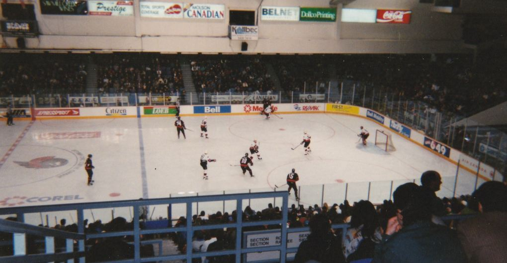 A Senators intra-squad game from the 1994-95 NHL Super Skills competition held at the Ottawa Civic Centre in November 1994. This was Radek Bonk's first appearance in Senators' uniform.